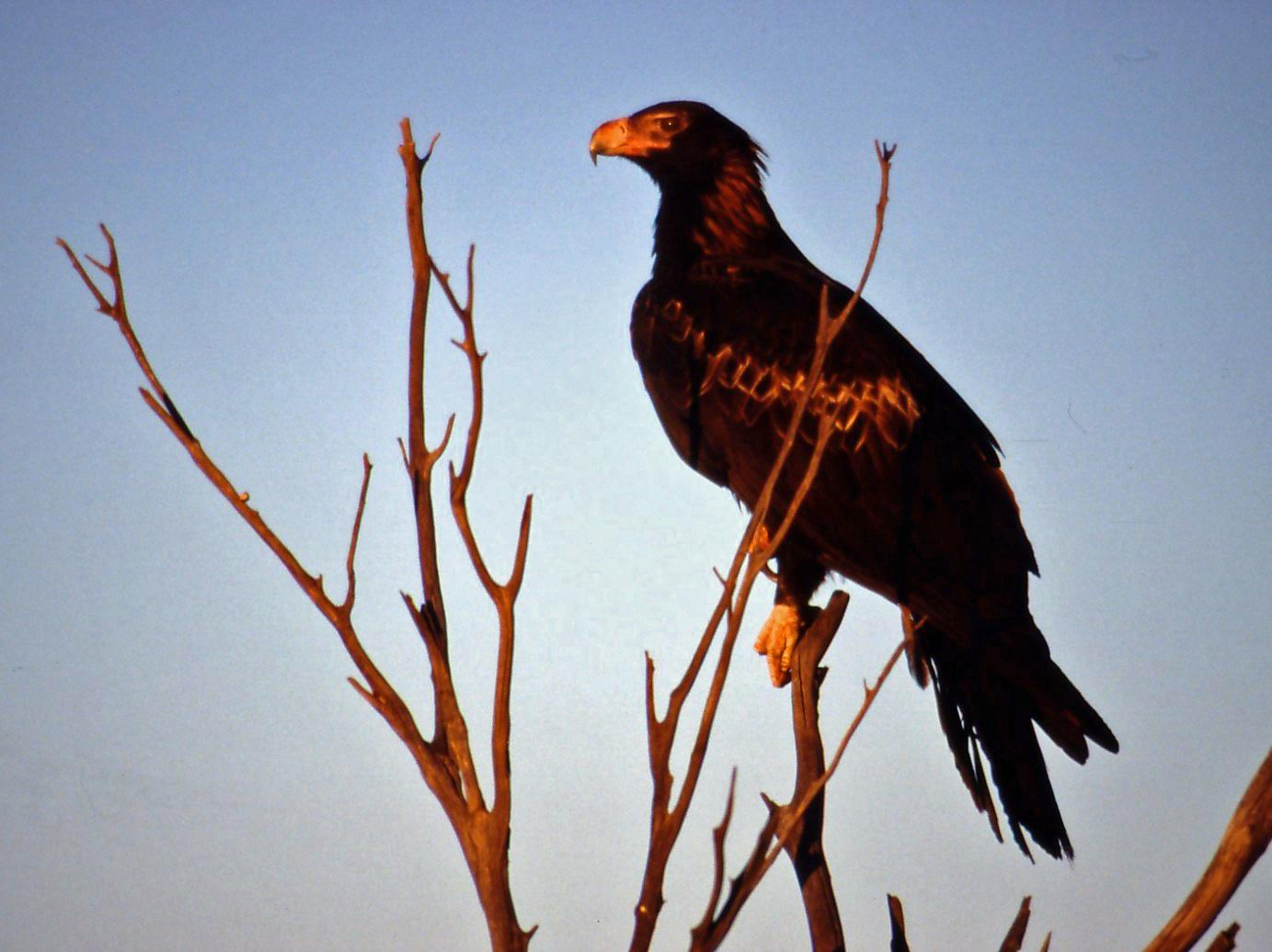 Wedge Tailed Eagle (Aquila audax), Australia